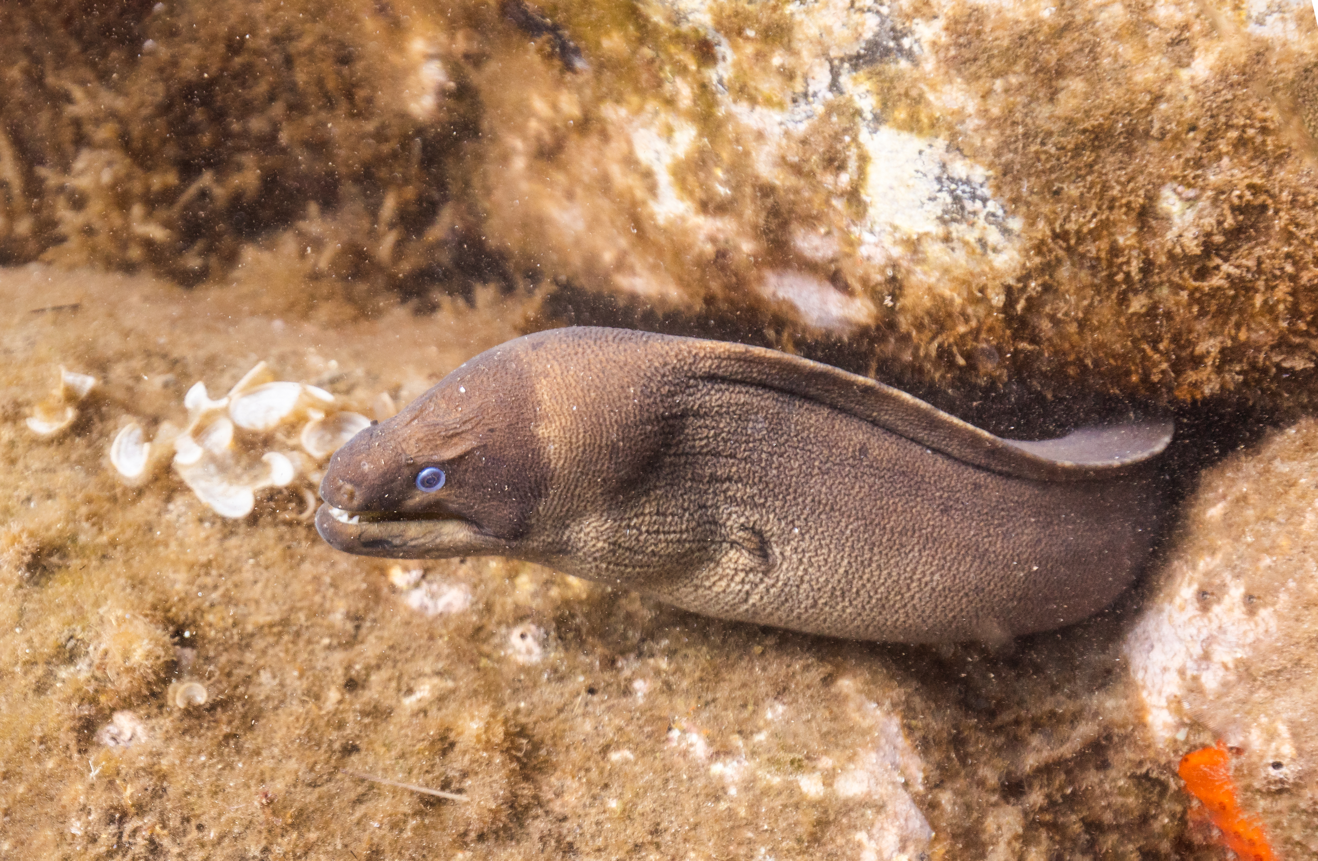 Brown moray eel (Gymnothorax unicolor), Madeira, Portugal